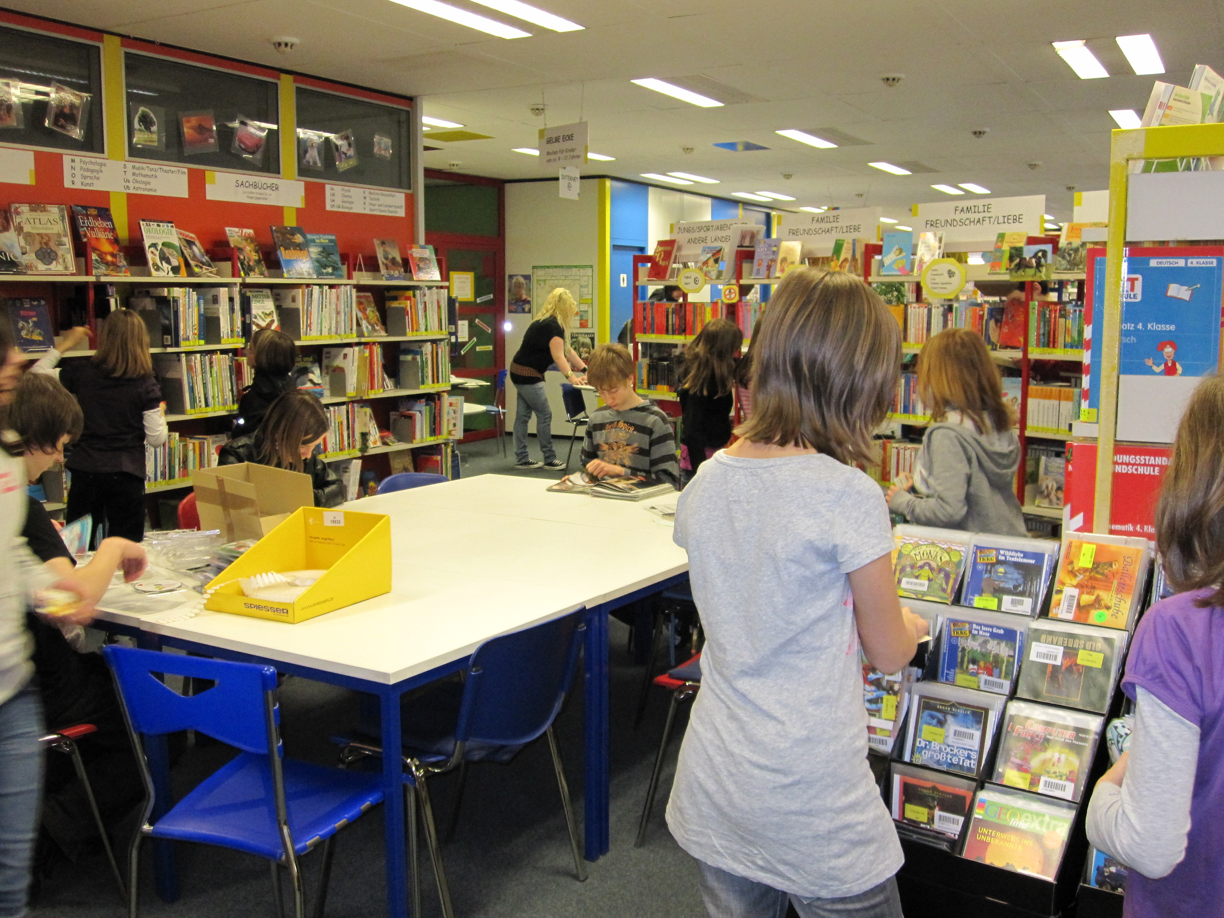 Große Pause in der Stadtbibliothek Freiberg